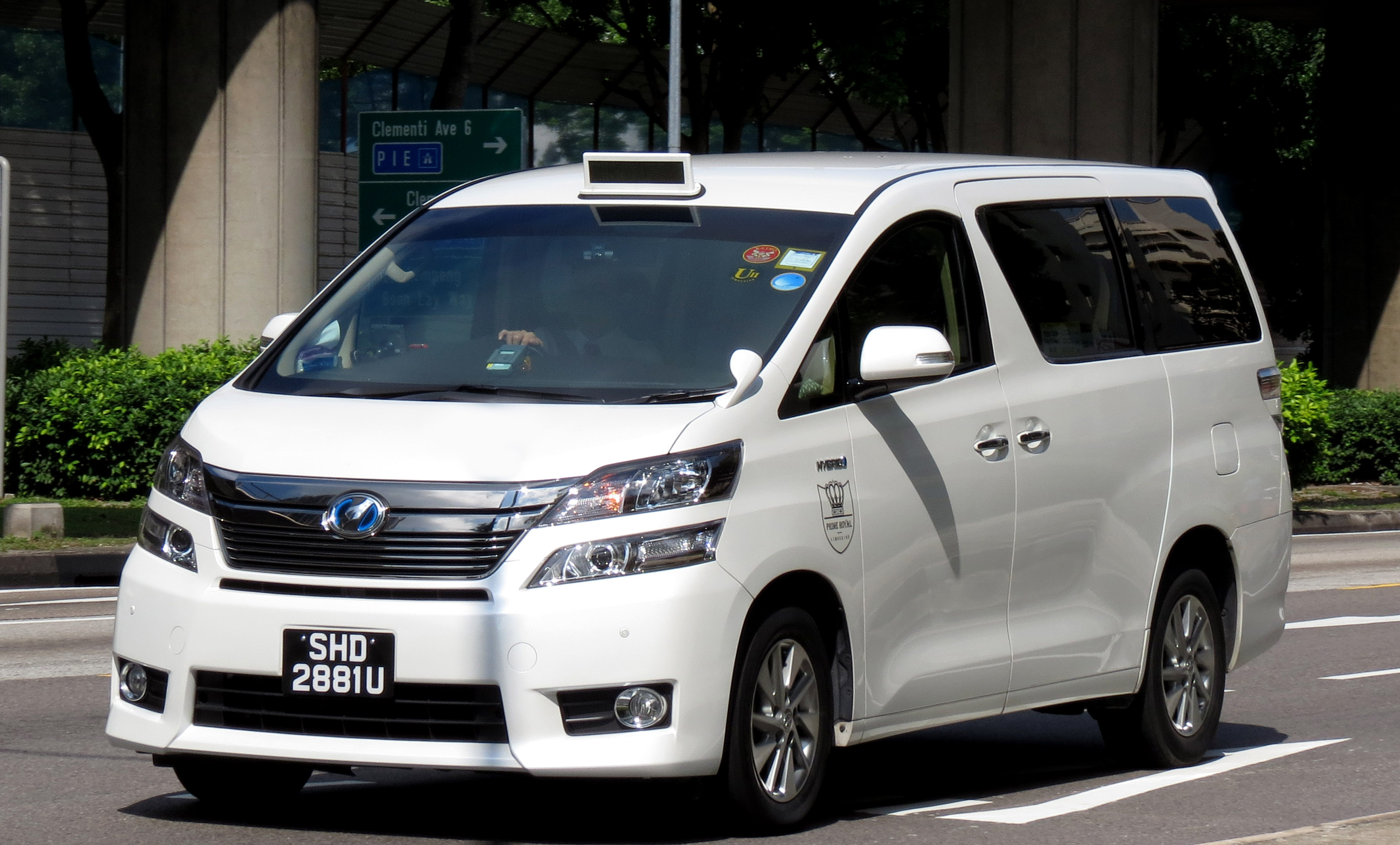 Toyota Vellfire as a taxicab in Singapore.